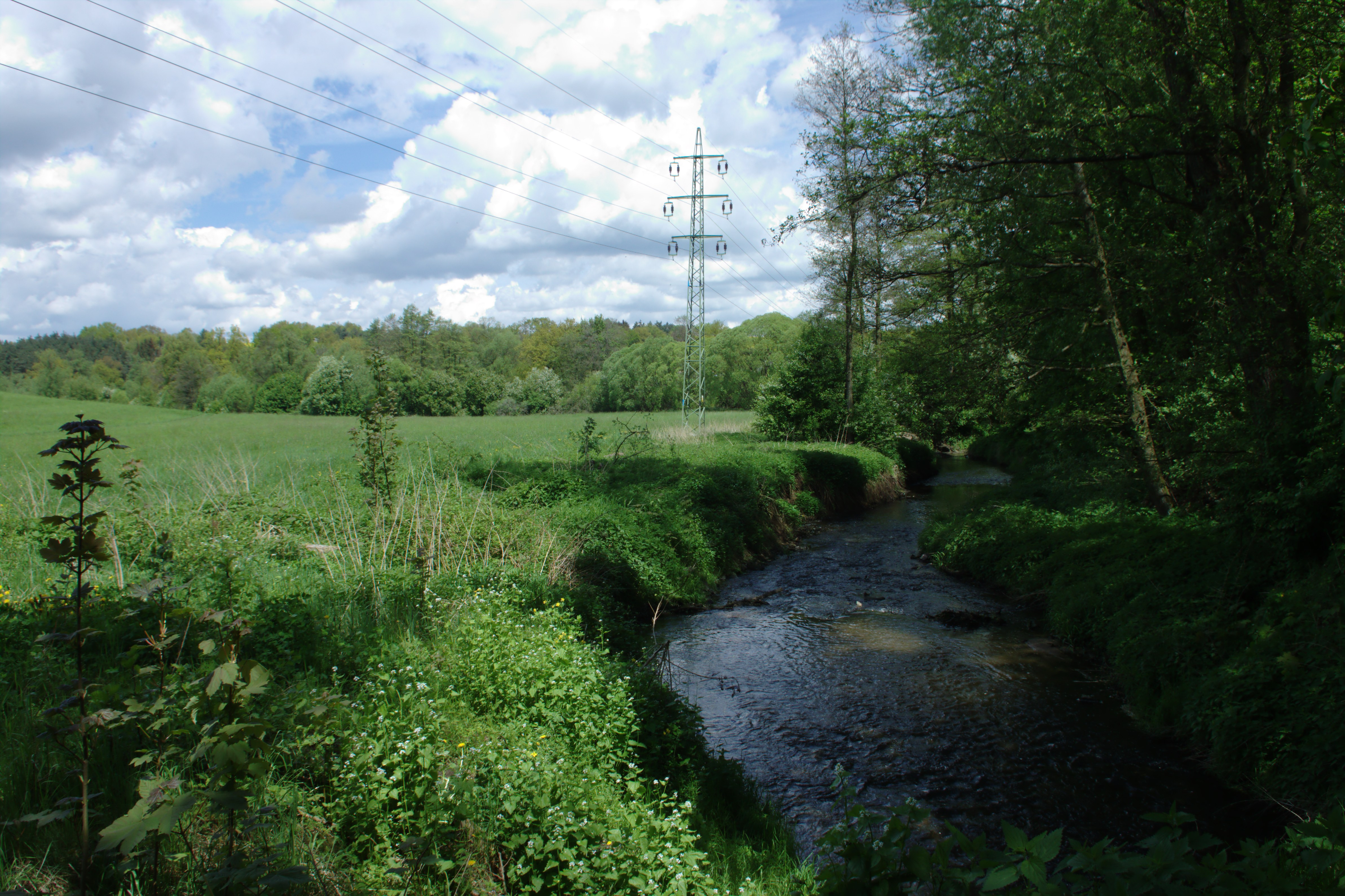 Benešovský potok Creek near the village of Bedrč, Central Bohemian Region, CZ